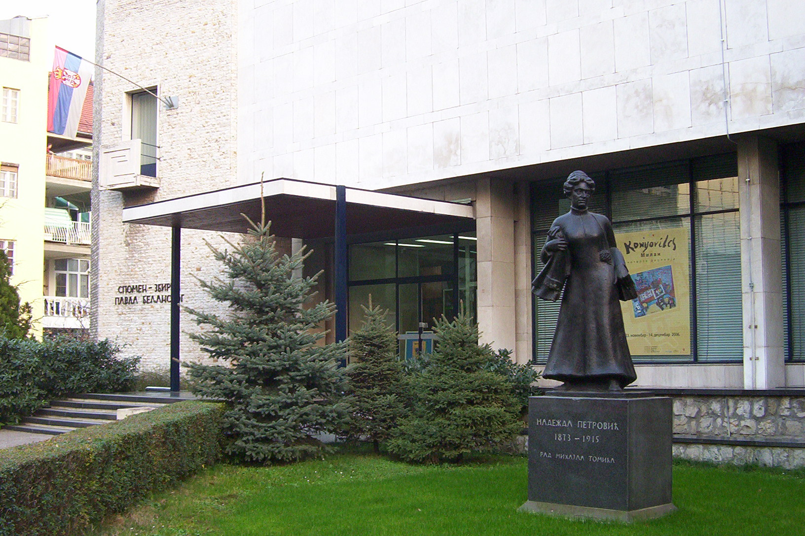 The Pavle Beljanski Memorial Collection